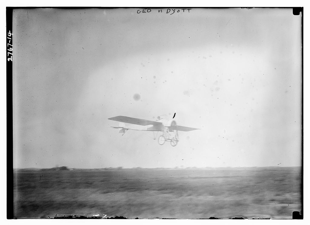 Bain News Service,, publisher. George Miller Dyott circa 1913 [no date recorded on caption card] 1 negative : glass ; 5 x 7 in. or smaller. Notes: Title from unverified data provided by the Bain News Service on the negatives or caption cards. Forms part of: George Grantham Bain Collection (Library of Congress). Format: Glass negatives. Repository: Library of Congress, Prints and Photographs Division, Washington, D.C. 20540 USA, General information about the Bain Collection is available at Persistent URL: Call Number: LC-B2- 2767-14 Notes: The aircraft is the Dyott monoplane; compare the diagrams in Flight, 26 April 1913 p.455.TSRL (talk) 20:47, 19 May 2010 (UTC)